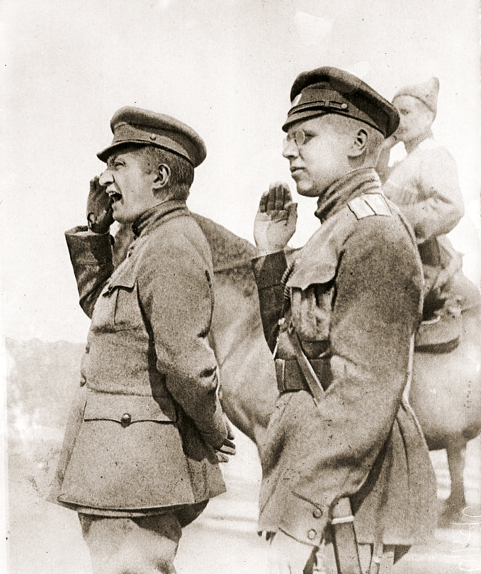 Alexander Kerensky, socialrevolutionay politician, minister and last PM of the Russian Provisional Government, exhorting some Russian troops, spring or summer, 1917.